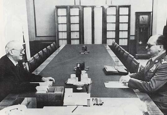 Jurij Andropov and Wojciech Jaruzelski